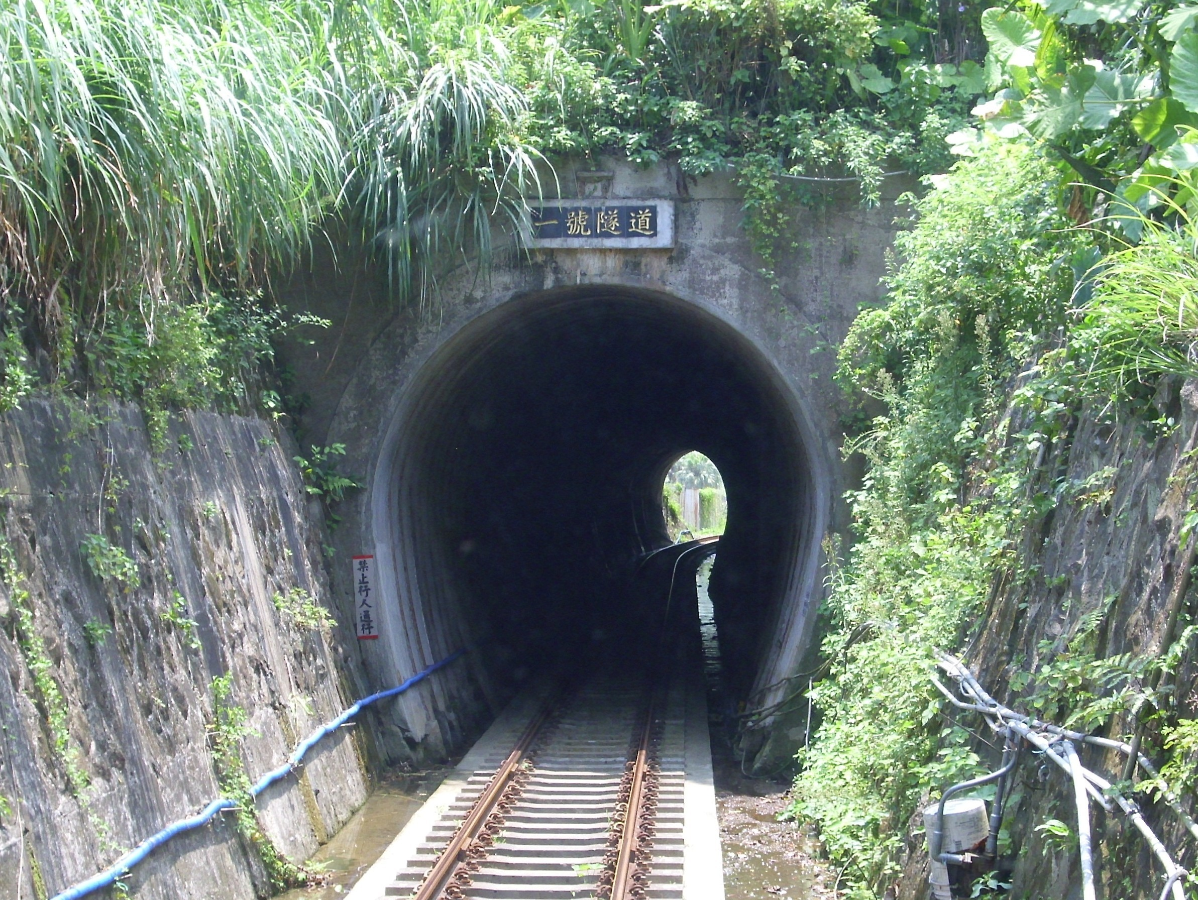 Shen'ao Line NO.1 Tunnel